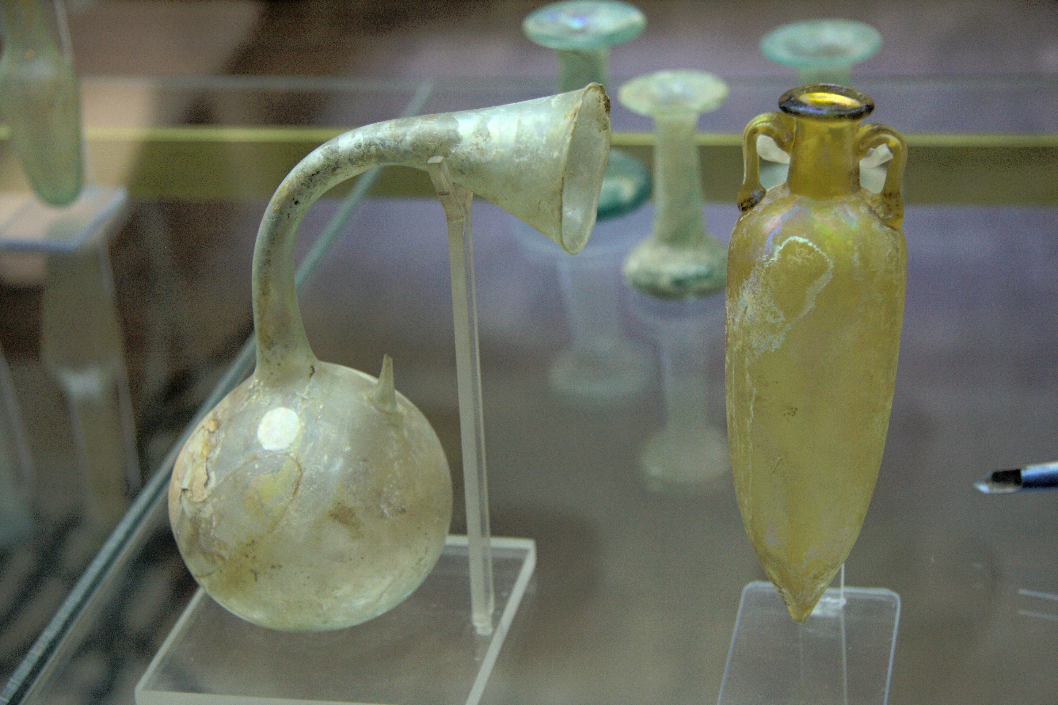 Glass vessels. According to excavation data, there was a glass workshop at Tarra (modern Agia Roumeli). The unworked lump of glass was found there and used as material for making the vessels. Several sities of Chania district, 5th century BC - 3rd century AD. Archaeological Museum of Chania.